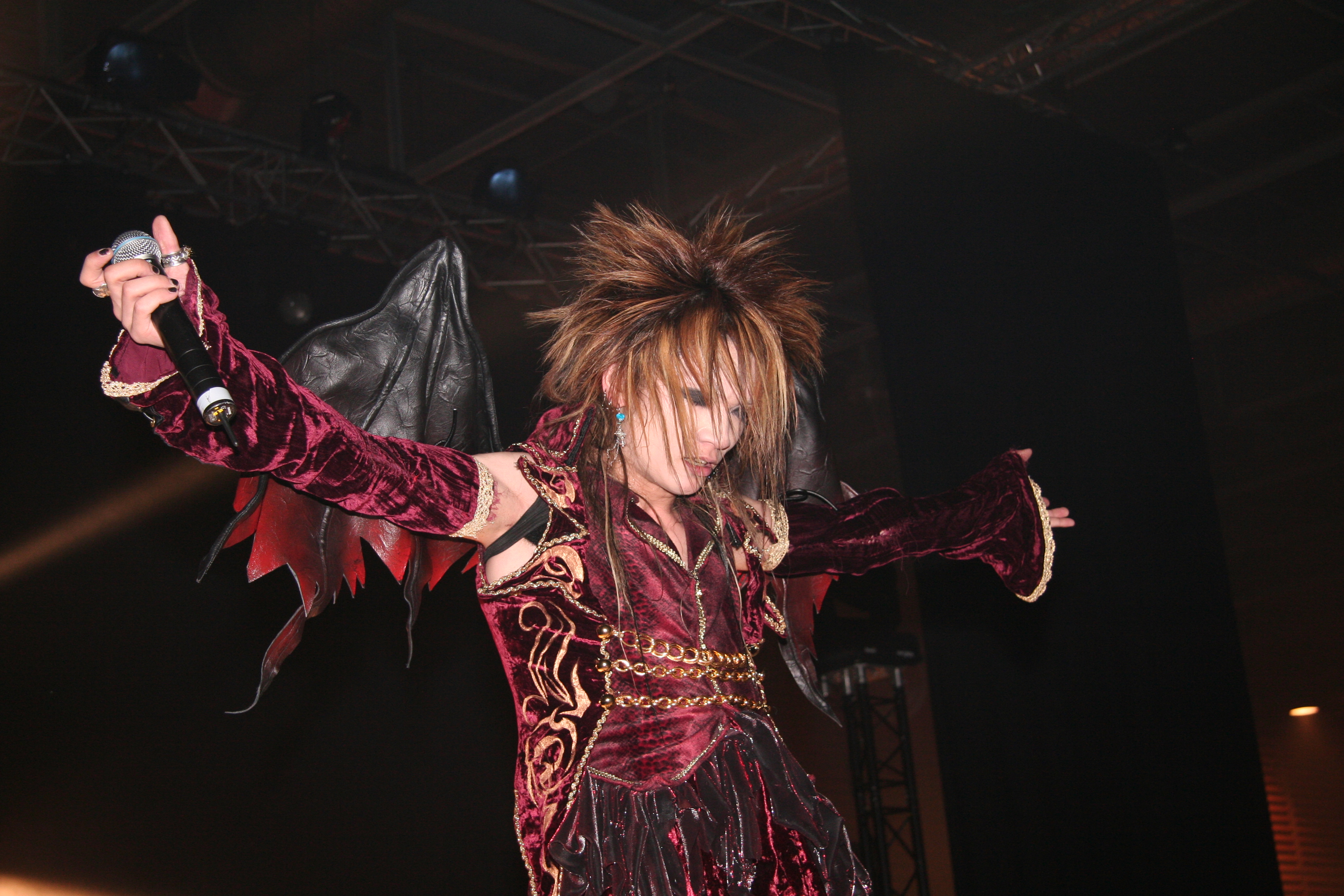 Dio - Distraught Overlord live at Japan Expo 2007 (Paris, France).